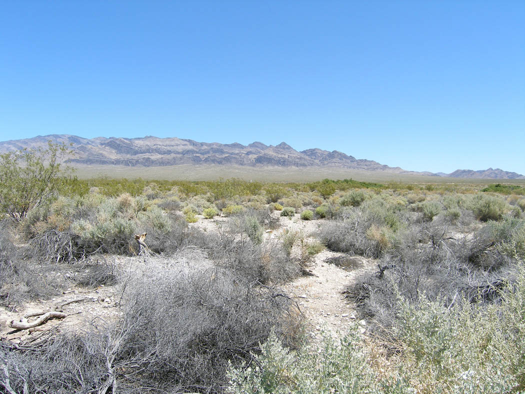 Desert Environment in the Desert National Wildlife Refuge.[1] Long-distance view of Alluvial fan; (Corn Creek Springs region).